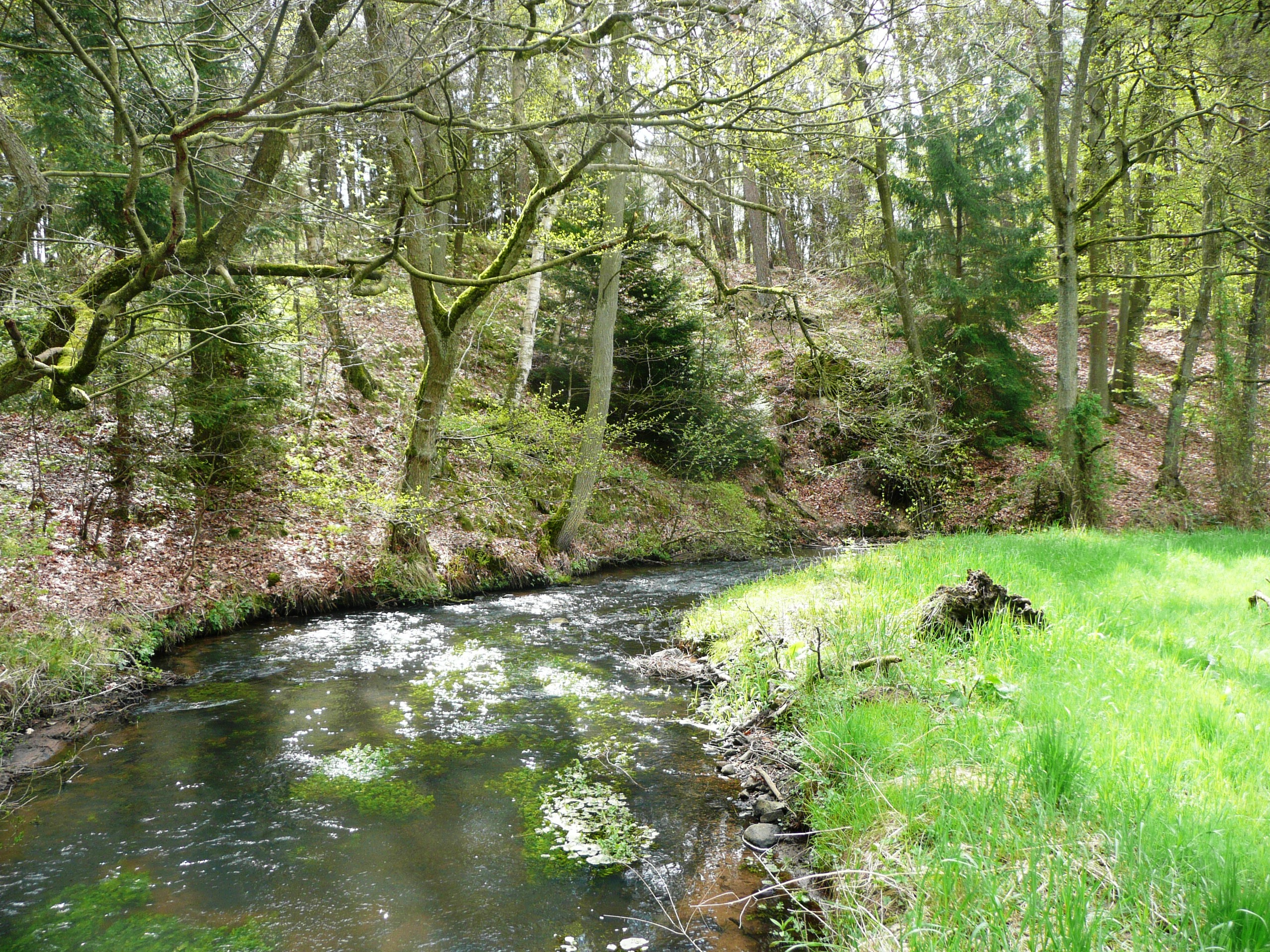 Warnau river near Borg, Lüneburg Heath (Bomlitz, Lower Saxony, Germany)